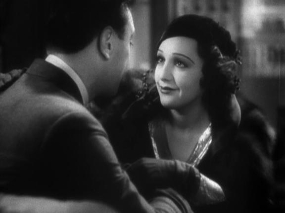 Frame from public domain trailer for 1933 Warner Bros. film 42nd Street showing George Brent as Pat and Bebe Daniels as Dorothy